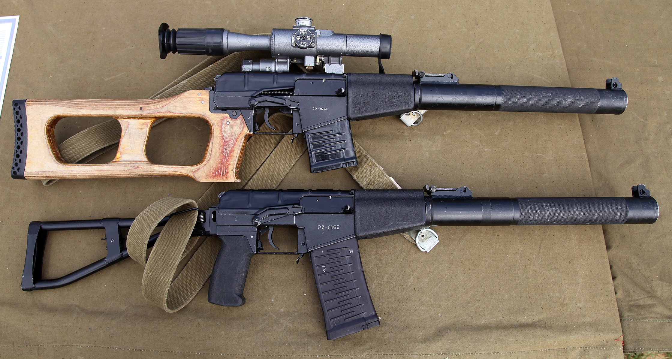 VSS Vintorez and AS Val